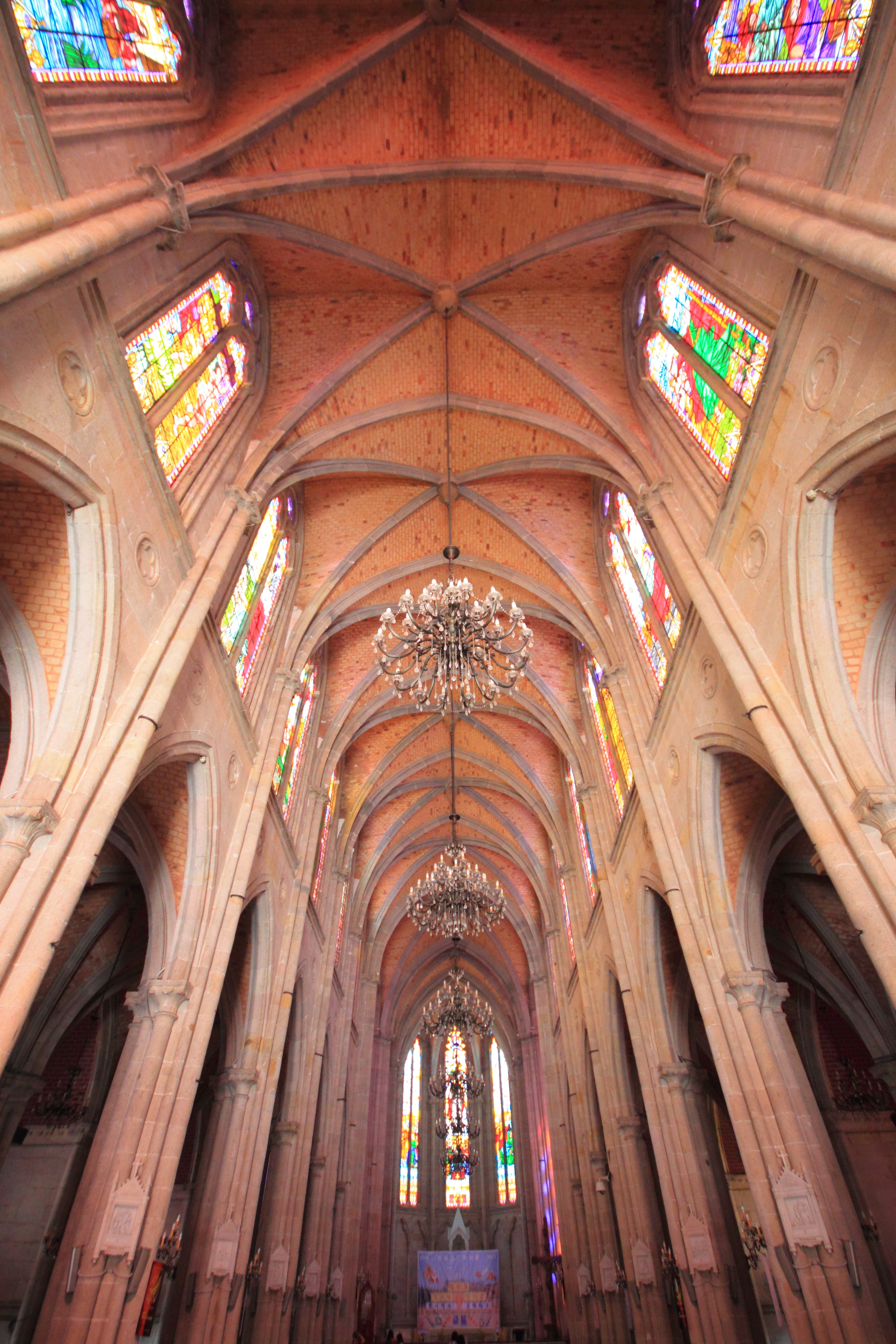 Sacred Heart Cathedral of Guangzhou，in Guangzhou, Guangdong, China.